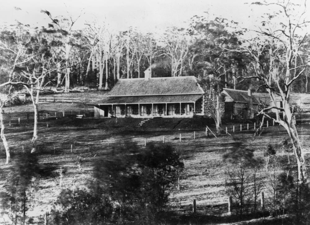 Harlaxton in Toowoomba, Queensland, ca. 1870. The original owner, Francis Thomas Gregory, bought the land in 1862 and built the property around 1870, and used an unusual red stone, laterite, quarried on site for his new house. The original section of the house is an L-shaped plan and is surrounded on two sides by a verandah (Information taken from EPA Heritage register, 2008, retrieved 29/04 /08 from